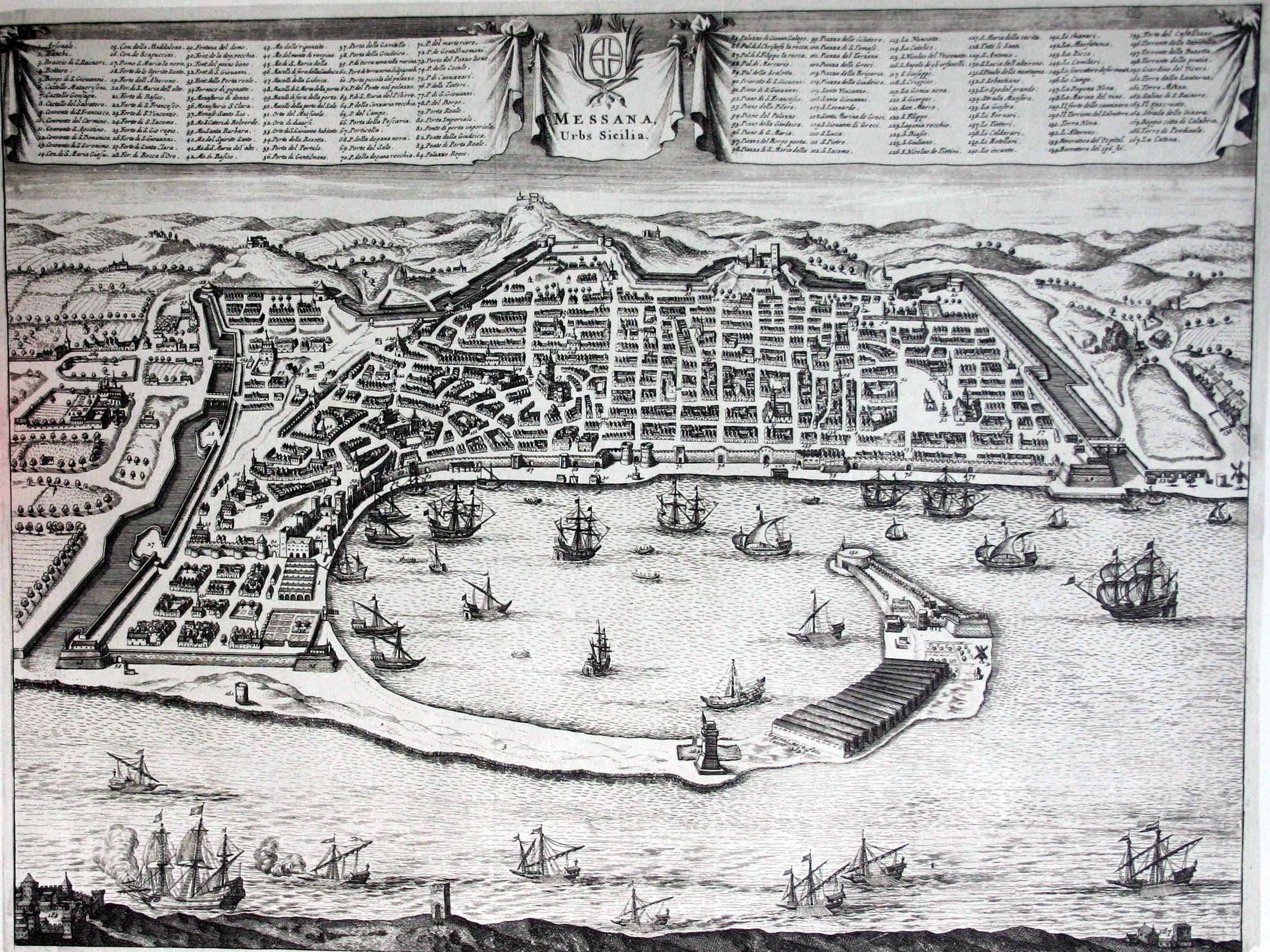 Map of Messina